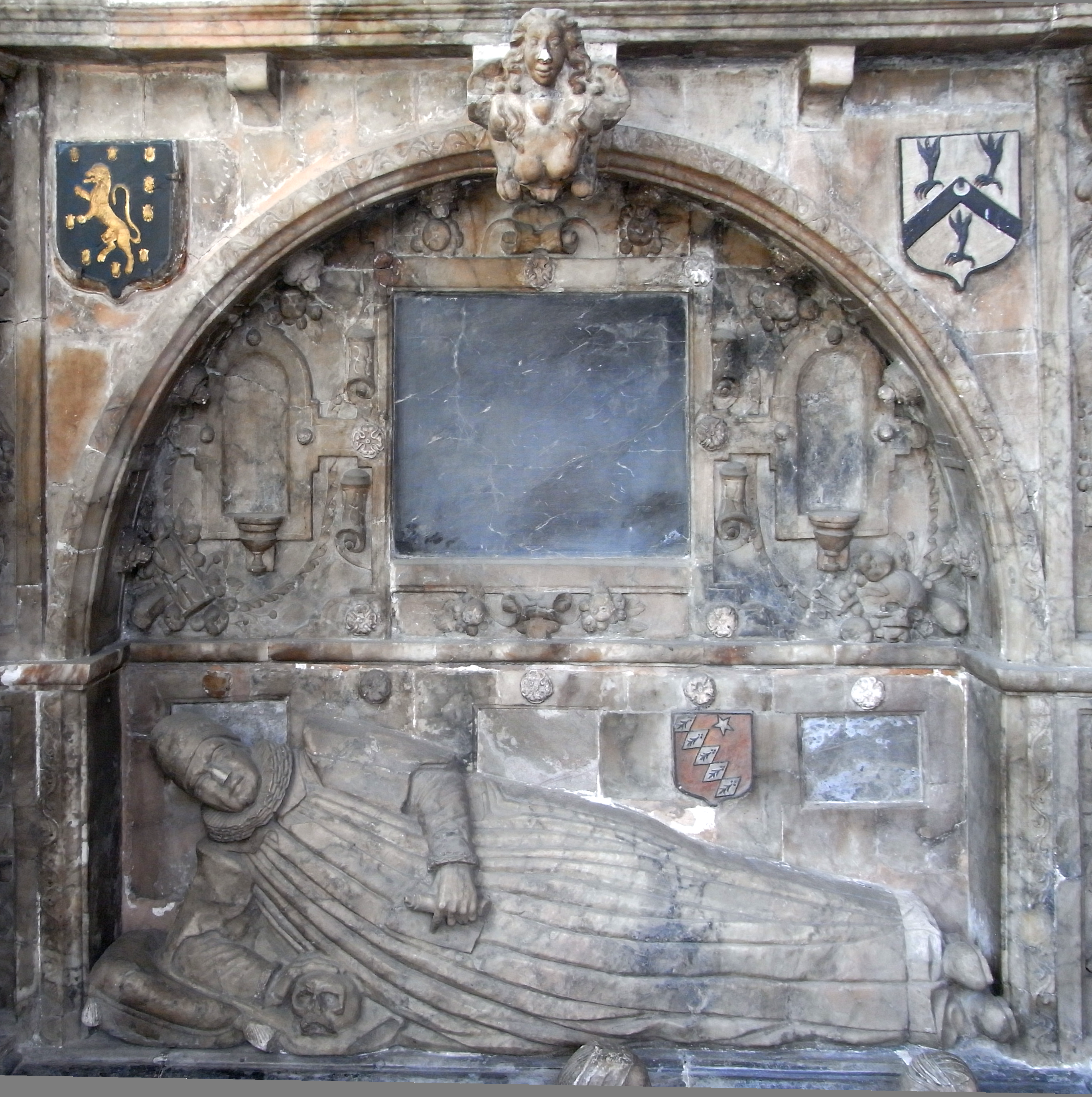 Detail from monument to Elize Hele (1560–1635), south side of chancel, Bovey Tracey Church, Devon.